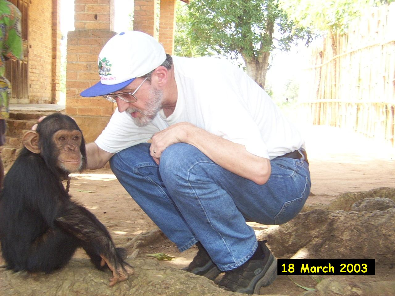 Professor Colin Groves interacts with the chimpanzee named "Attacker" at a chimpanzee sanctuary (nursery and holding facility) at the town of Bili in The Democratic Republic of Congo (18 March, 2003). The chimpanzee featured, on maturity, was destined for the Chimfunshi sanctuary in Zambia.